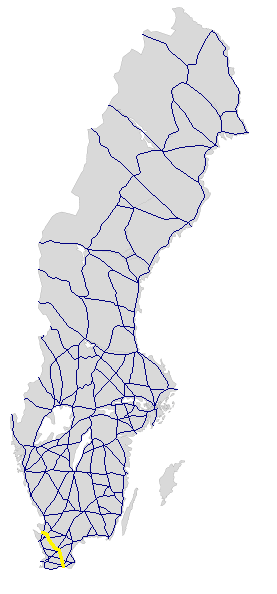 Sweden's network of National routes (roads), cities and road numbers not shown. Based on a blank map. For info on how to easiest edit the map see SWE-Map Documentation